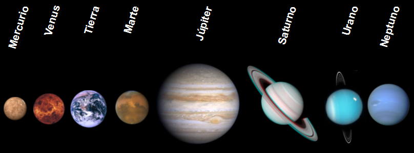 8 clasic solar planets (photos). IAU Resolution about planets Aug-24-2006. The picture doesn't respect relative size between planets.